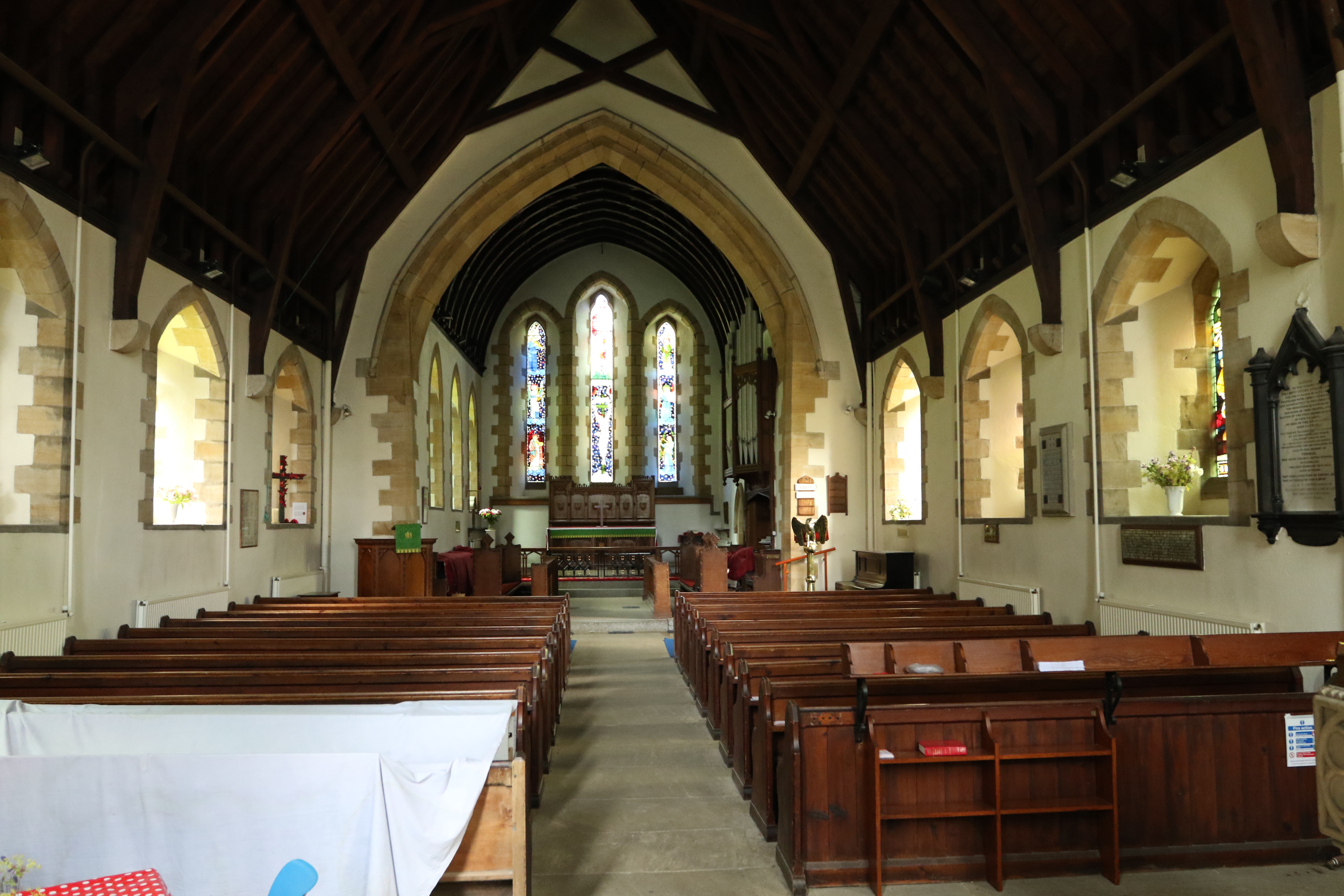 From the west end